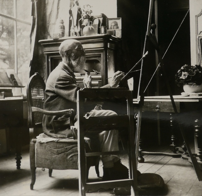 Эдгар Максенс